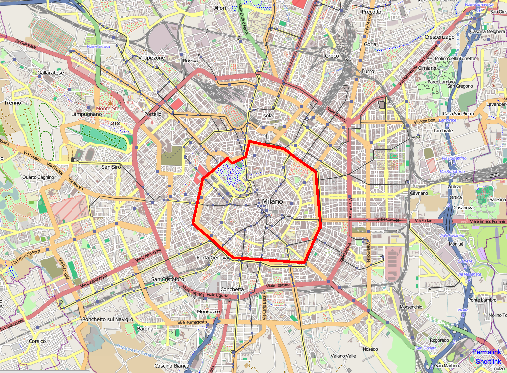 Map of Milan showing the border of the Ecopass area (red line)